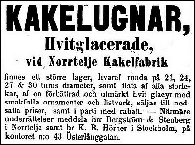 Norrtelje Kakelfabrik advertisement from 1860